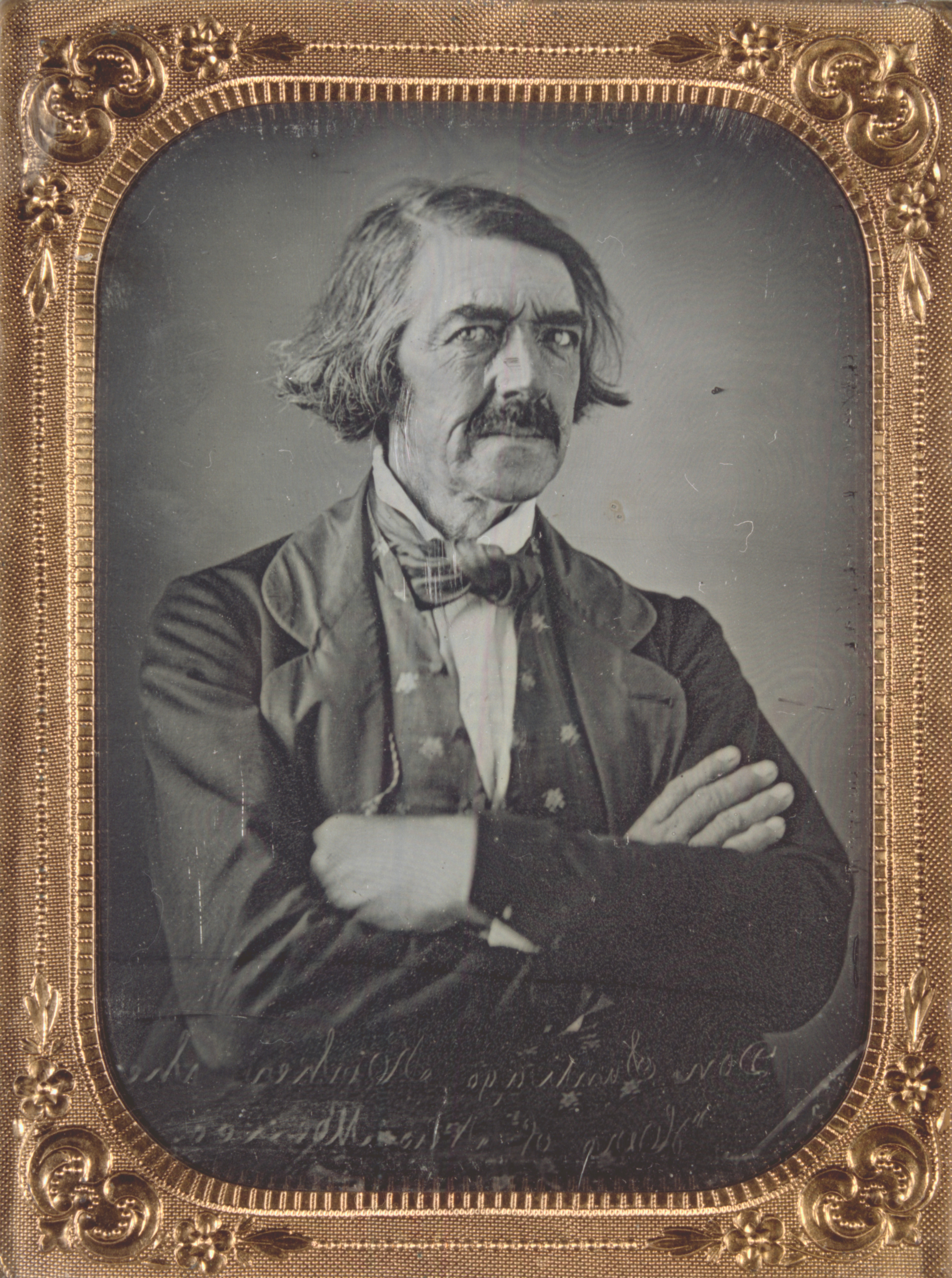 Portrait of James Kirker, otherwise known as Don Santiago Kirker, King of New Mexico. He was an Indian fighter and trapper who lived in St. Louis from 1817-1821. On this daguerreotype is faint writing which is reversed, indicating that it is a duplicate plate. This inscription along the bottom of the daguerreotype says "Don Santiago Kirker, King of New Mexico". Title: James Kirker (Don Santiago Kirker, King of New Mexico), [Indian fighter and trapper, lived in St. Louis 1817-1821].